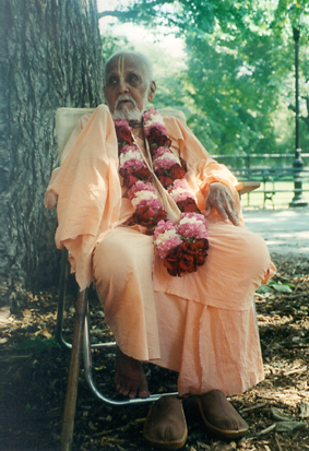 Photo of Bhakti Vaibhava Puri Maharaj taken by and copyright Siyavash. Photo taken on August 24th, 2001 in Thompkins Square Park, New York City.